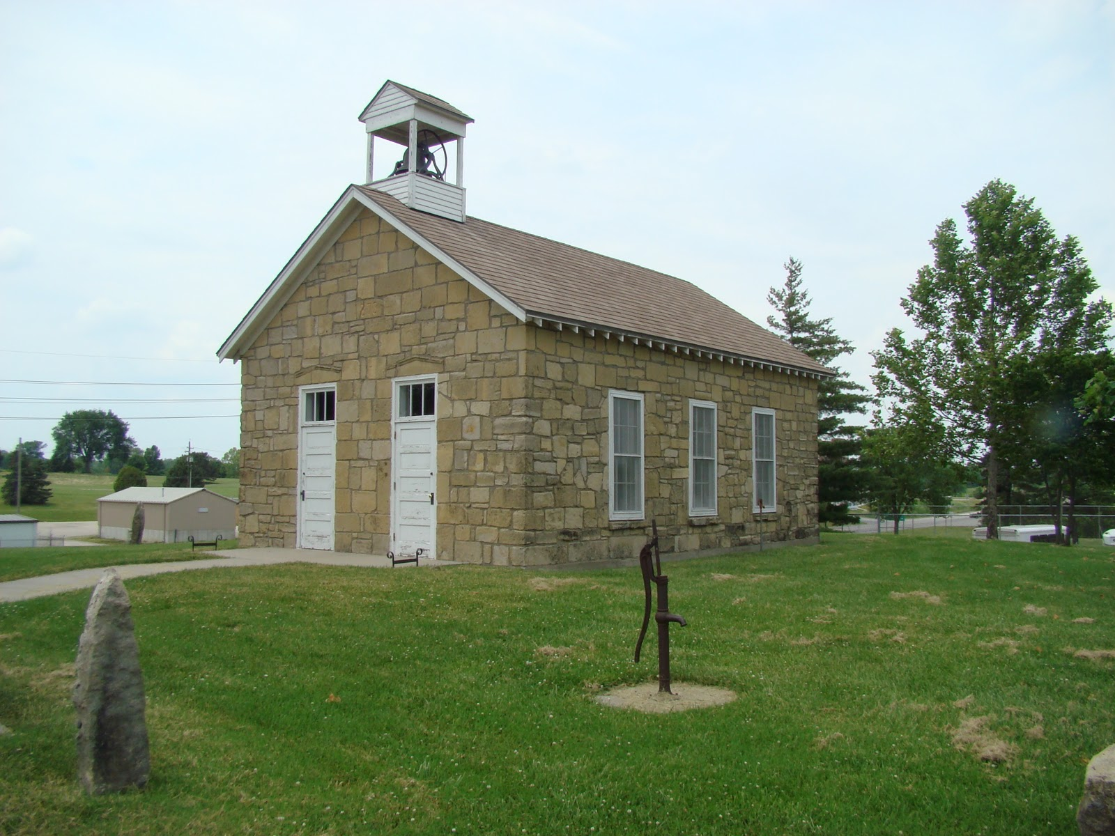 Dobbs School, a one-room schoolhouse, located on the campus of Emporia State University, located in Emporia, KS.